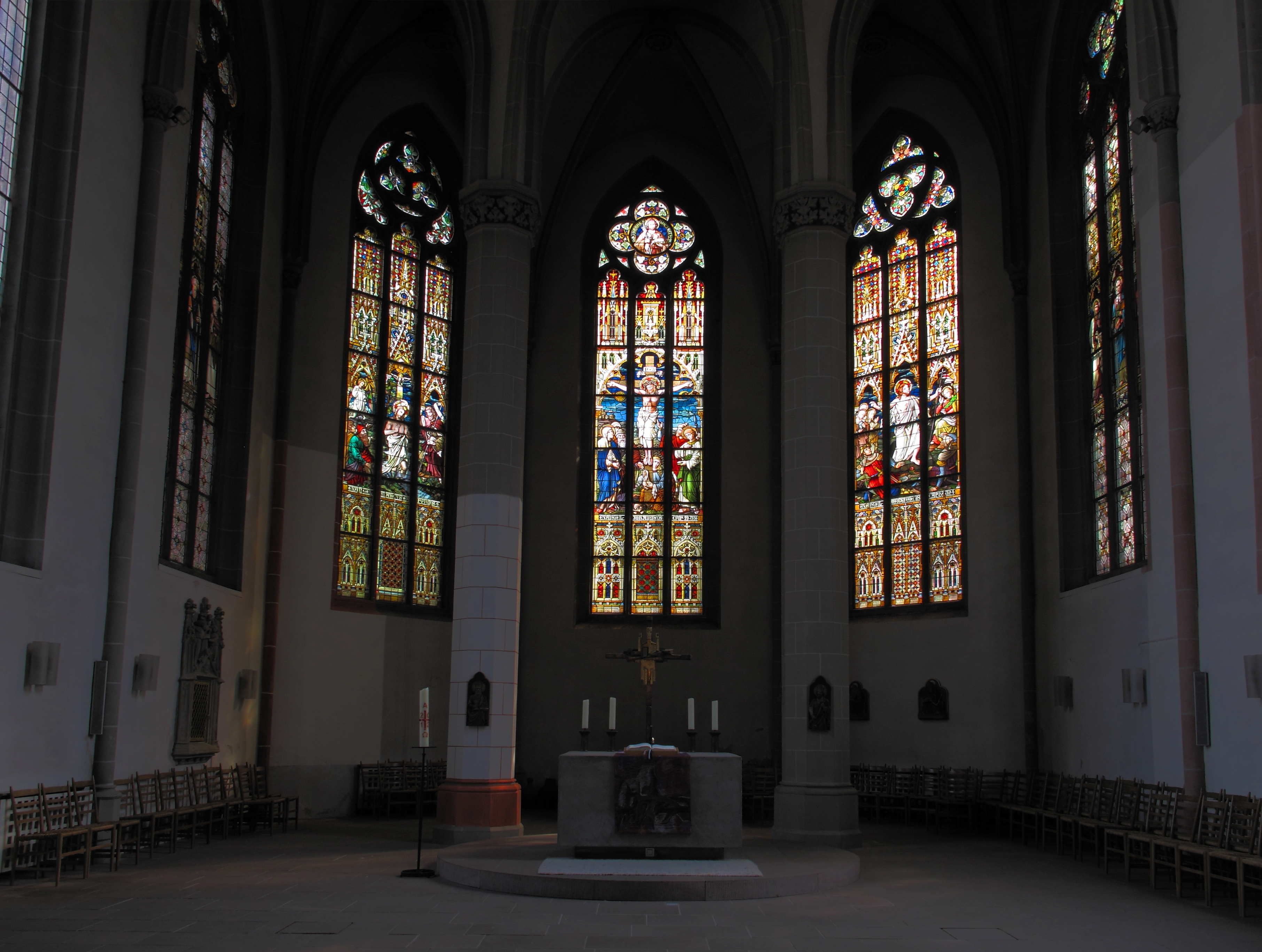 St. Johannis in Göttingen (Germany, Lower Saxony): Windows